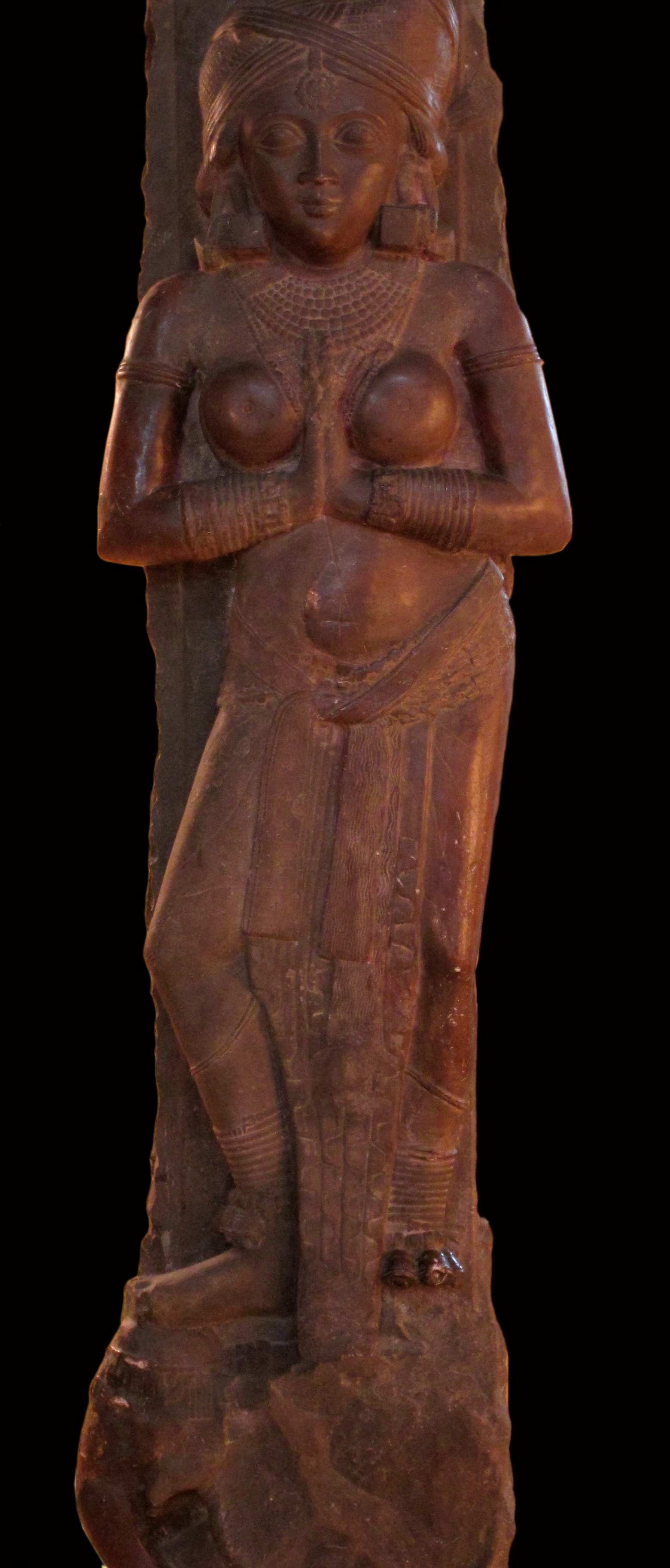 Prov. : Bharhut, Satna district in Madhya Pradesh. Yakshi on elephant mount. C. 2nd cent. B.C. Red sandstone. Bharat Kala Bhavan, Varanasi. Donor : Sri B. M. Vyas.